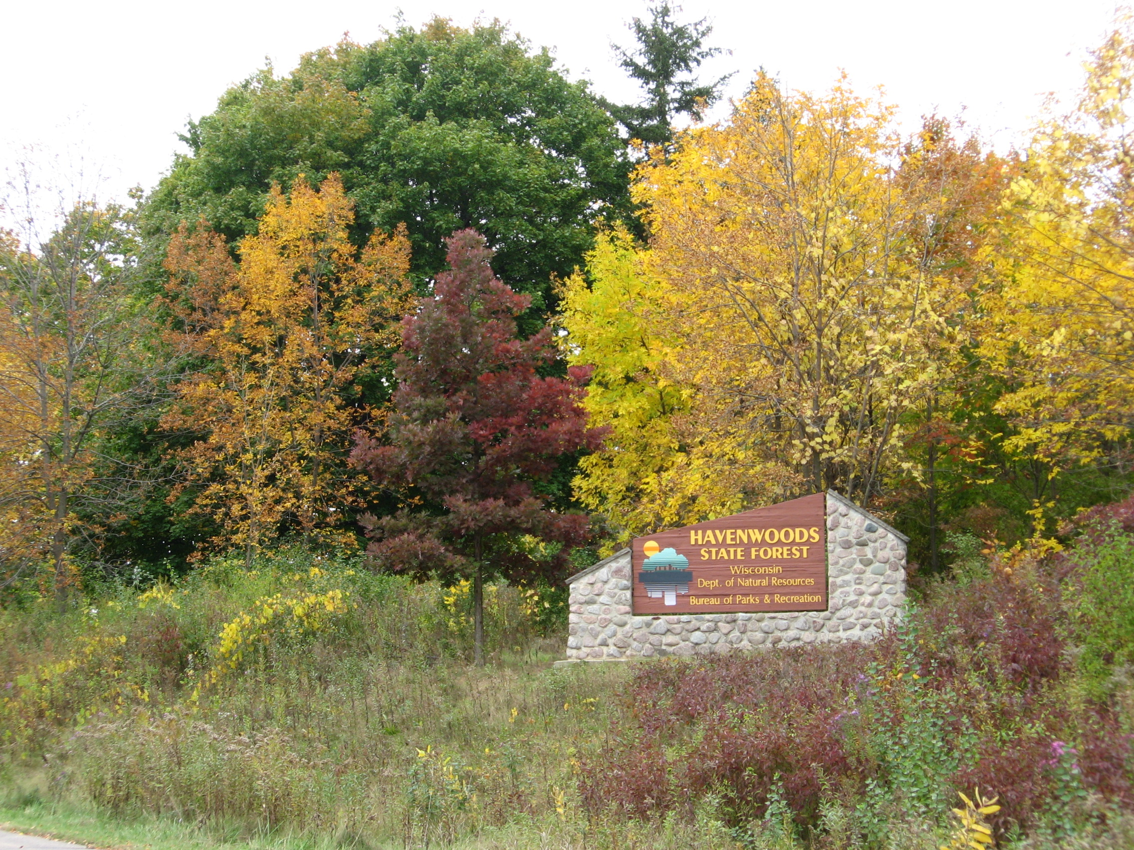 Havenwoods State Forest in Milwaukee, Wisconsin.